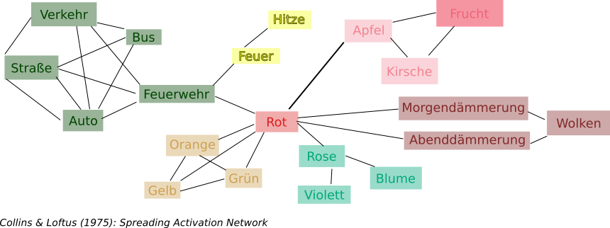 How the Mental Dictionary does work when an item is searched